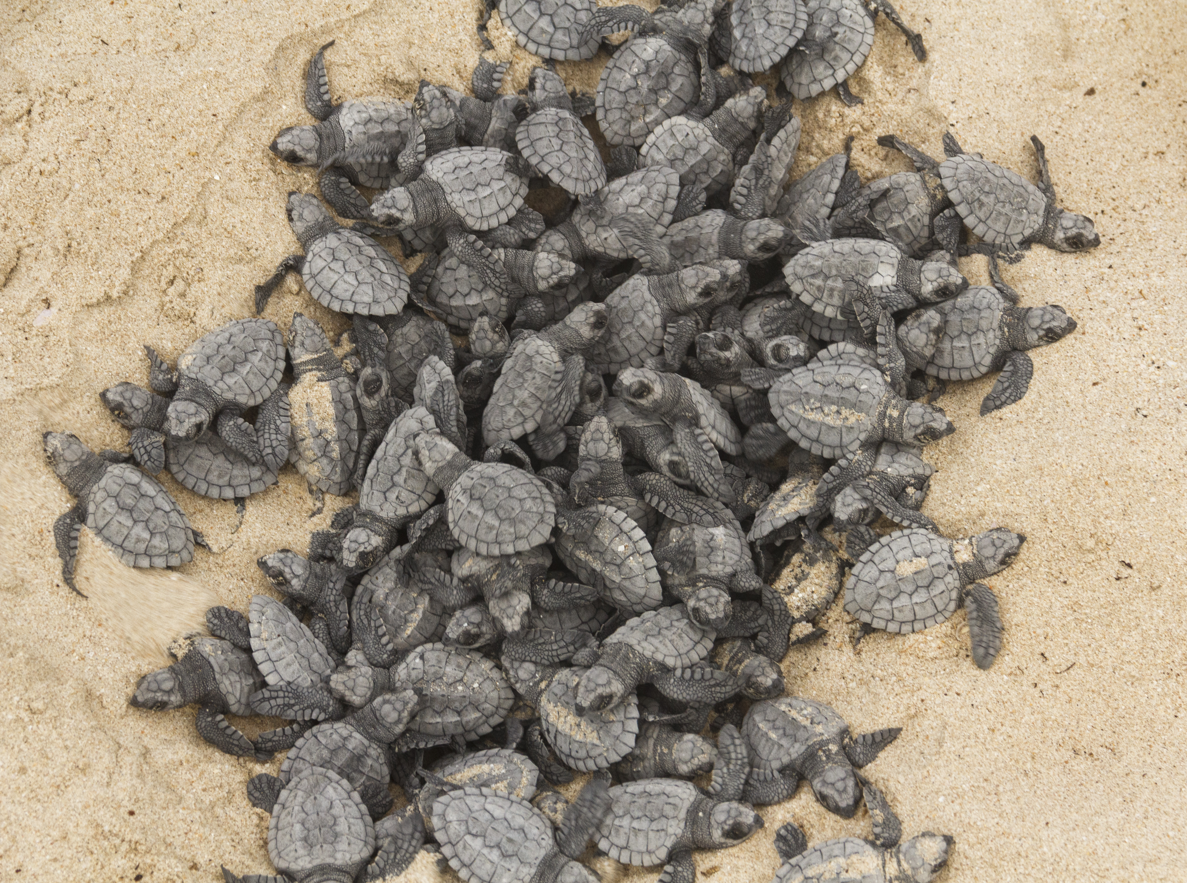 Kemp's Ridley Hatchlings emerging from nest in nesting corral in Rancho Nuevo, Tamaulipas, Mexico in 2017